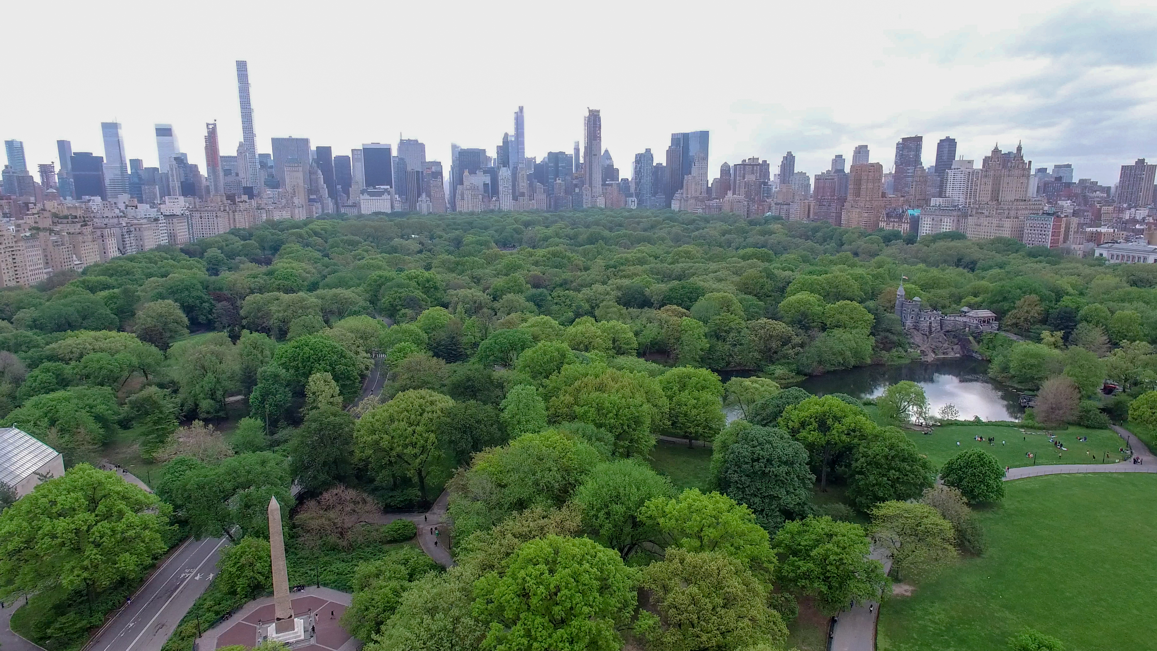 Drone photo of Central Park.